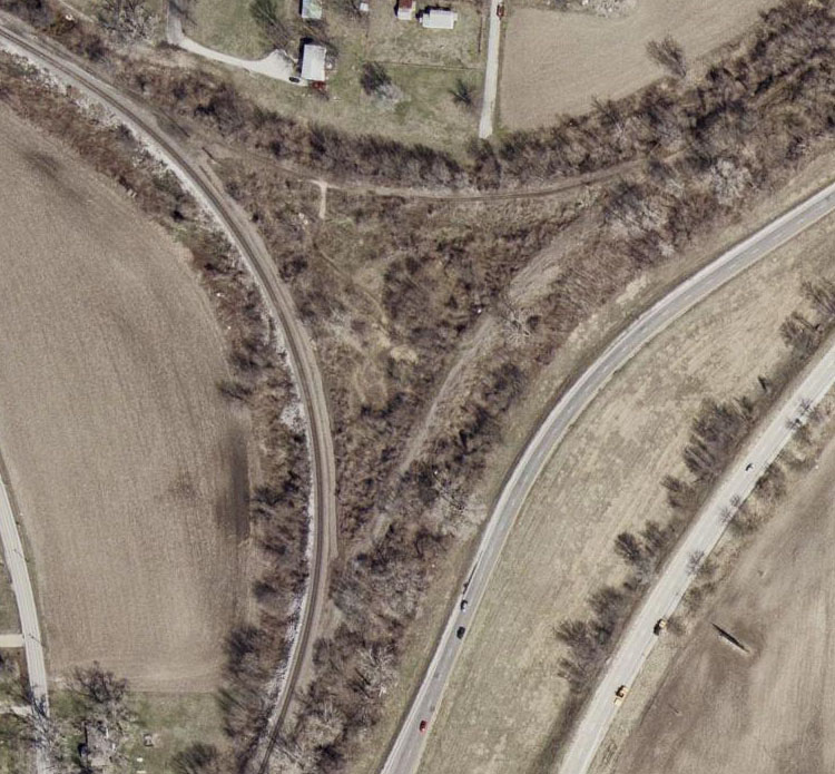 Aerial image of a partially-abandoned railroad wye in Missouri, United States